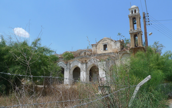 The remains of the Church of Profitis Ilias in Marathovounos, Cyprus, 2012. Photo: C. Moisa.